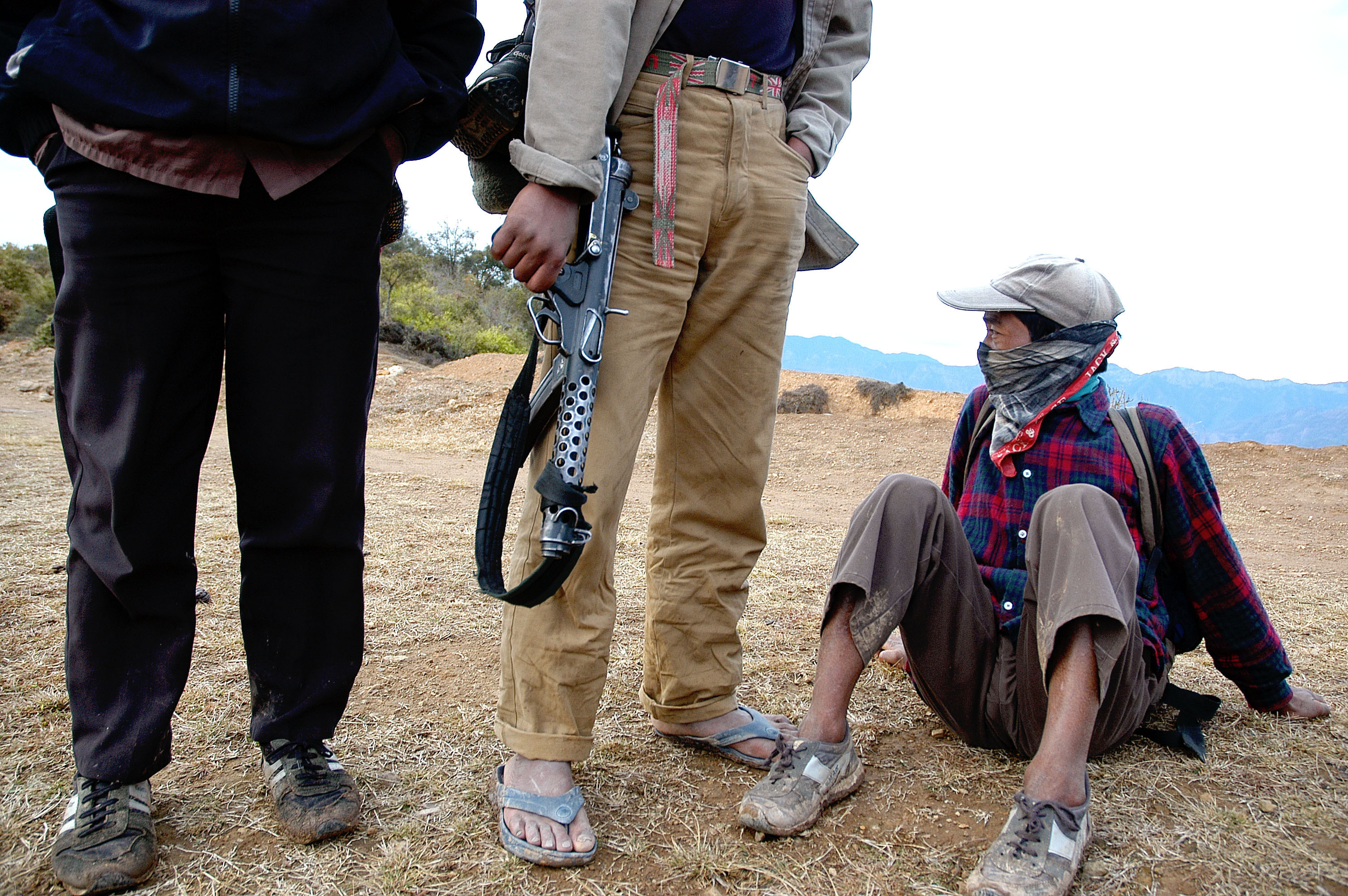 Three Maoist rebels are waiting on top of a hill in the Rolpa district to get orders to relocate to another location